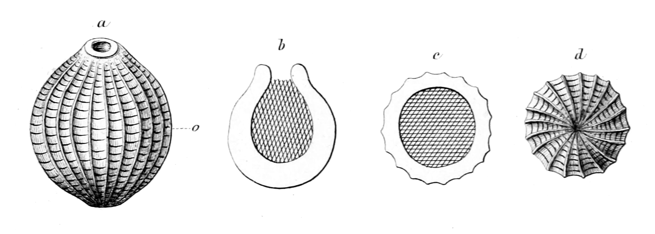 External and internal morphology of Sycidium reticulatum utricle.